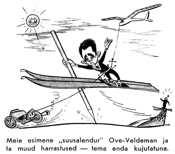 Self-portrait of Estonian ski jumper, motorcycle racer and journalist Oskar Veldeman (1912-1942)